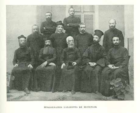 Missionaires Lazaristes de Zeitenlik